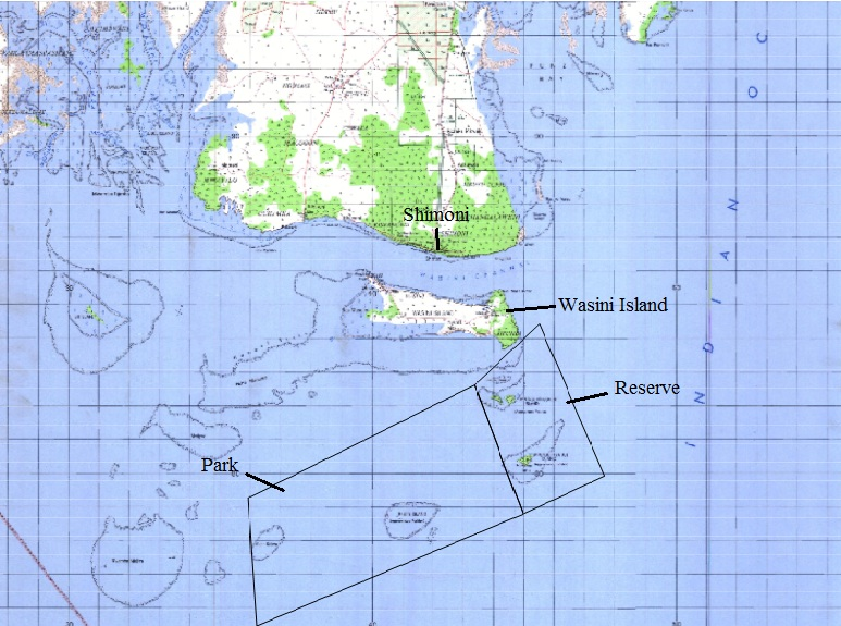 Map indicating Shimoni and Wasini Island in Kenya. Also indicates the National Park & the National Reserve off the south coast of Wasini Island.